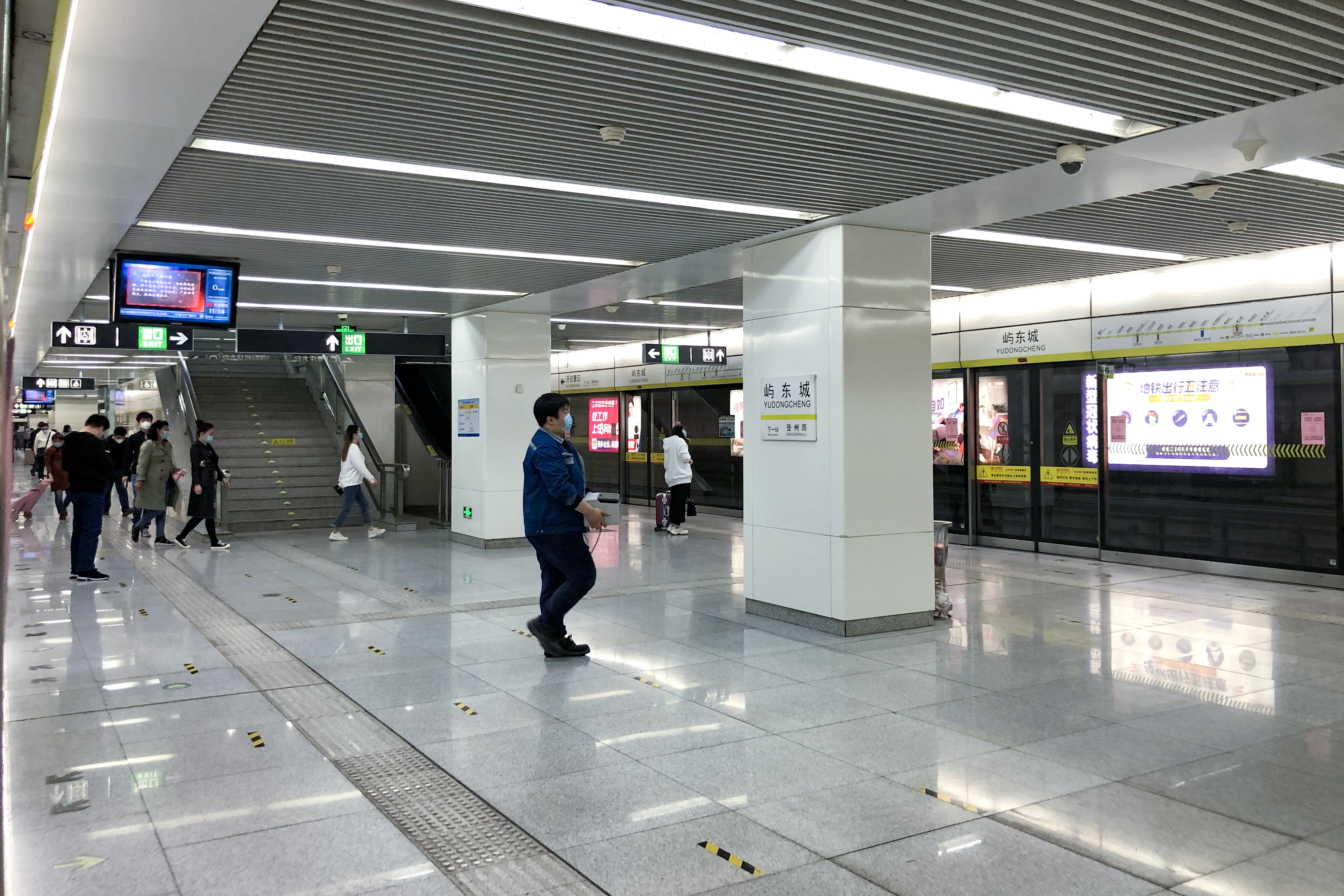 Just one of the by-products of my An-225 hunt... Maybe an interchange to Line 10.